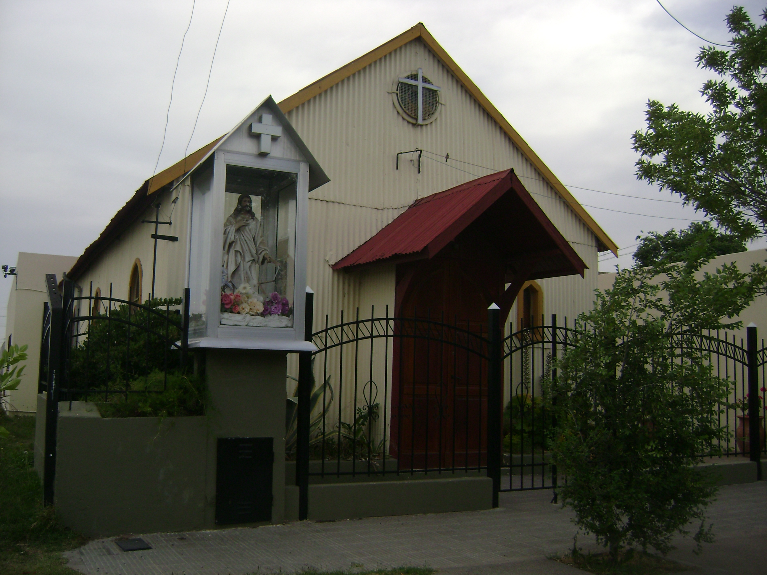 Little Church in Boulevard Juan B. Justo, Ingeniero White, Bahia Blanca, Argentina